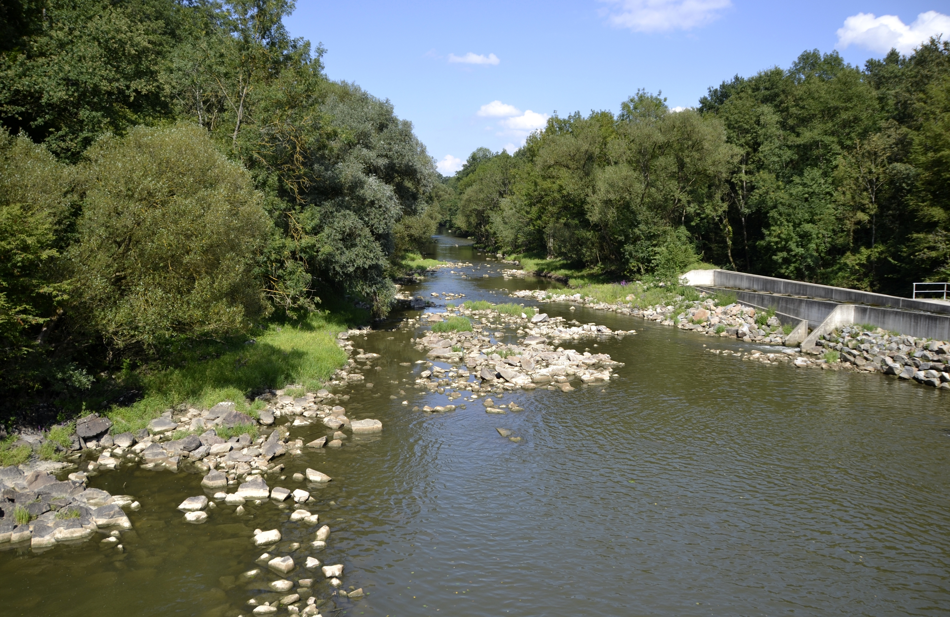 The underflow of the hydroelectric power plant at River Vils near the town of Vilshofen an der Donau.